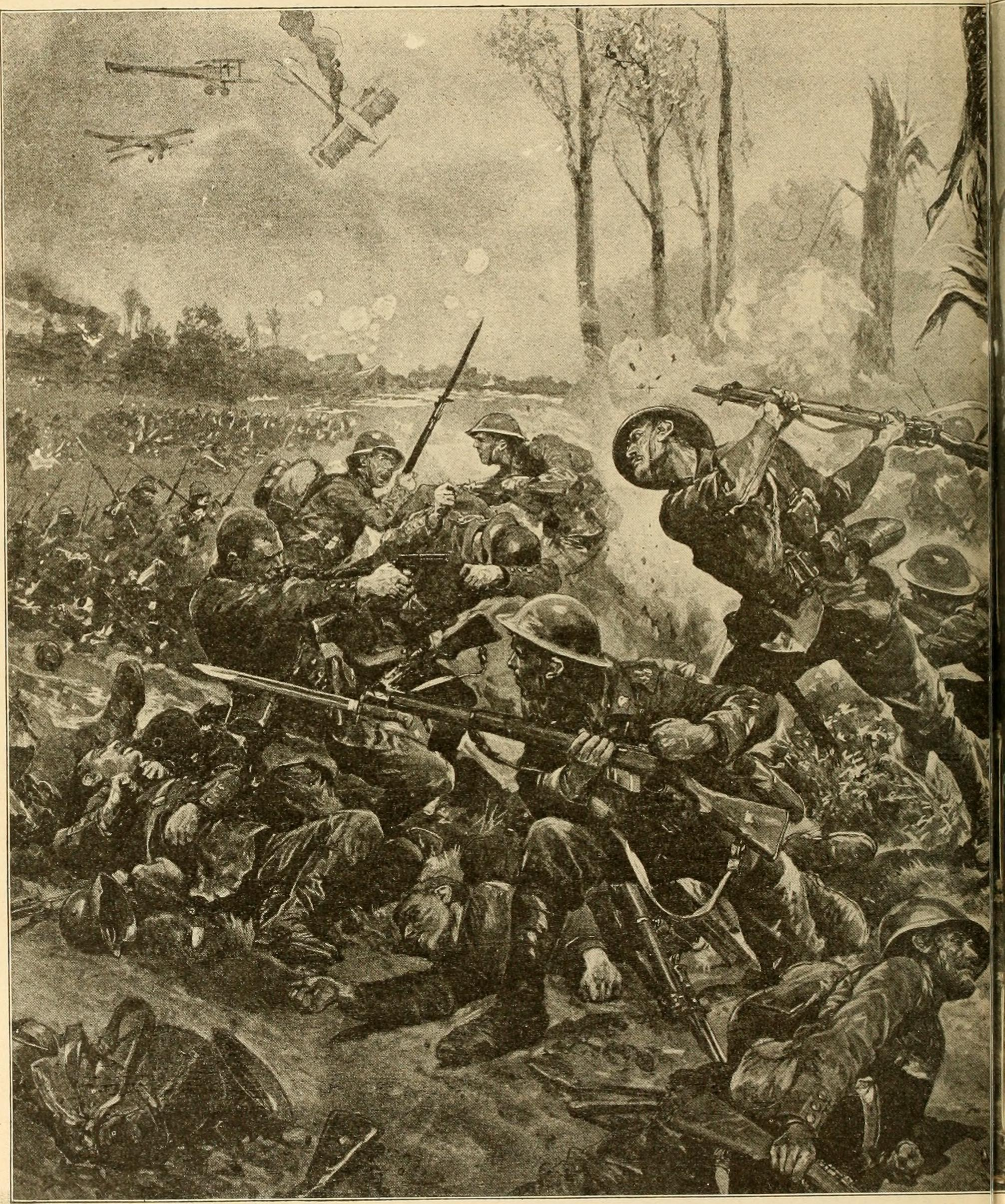 Title: The people's war book; history, cyclopaedia and chronology of the great world war Year: 1919 (1910s) Authors: Miller, J. Martin (James Martin), b. 1859 Canfield, Harry S. (from old catalog), joint author Plewman, William Rothwell, 1880- (from old catalog) Foch, Ferdinand, 1851-1929 Lloyd George, David, 1863-1945 United States. President (1913-1921 : Wilson) Subjects: World War, 1914-1918 World War, 1914-1918 Publisher: Cleveland, O., The R.C. Barnum co. Detroit, Mich., The F.B. Dickerson co. (etc., etc.) Text Appearing Before Image: German prisoners taken by the Canadians. Note youthful appearance of prisoners. Mi THE PEOPLES WAE BOOK t Text Appearing After Image: Canadian and British Troops in the Most Sangin: CANADAS PART IN THE WAR 345